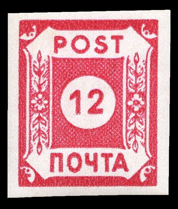 series of stamps of the Soviet occupation zone, East-Saxony, Numbers (I) Ausgabepreis: 12 Pfennig First Day of Issue / Erstausgabetag: 23. Juni 1945 Michel-Katalog-Nr: 41 (Alliierte Besatzung - Sowjetische Zone - Ost-Sachsen)